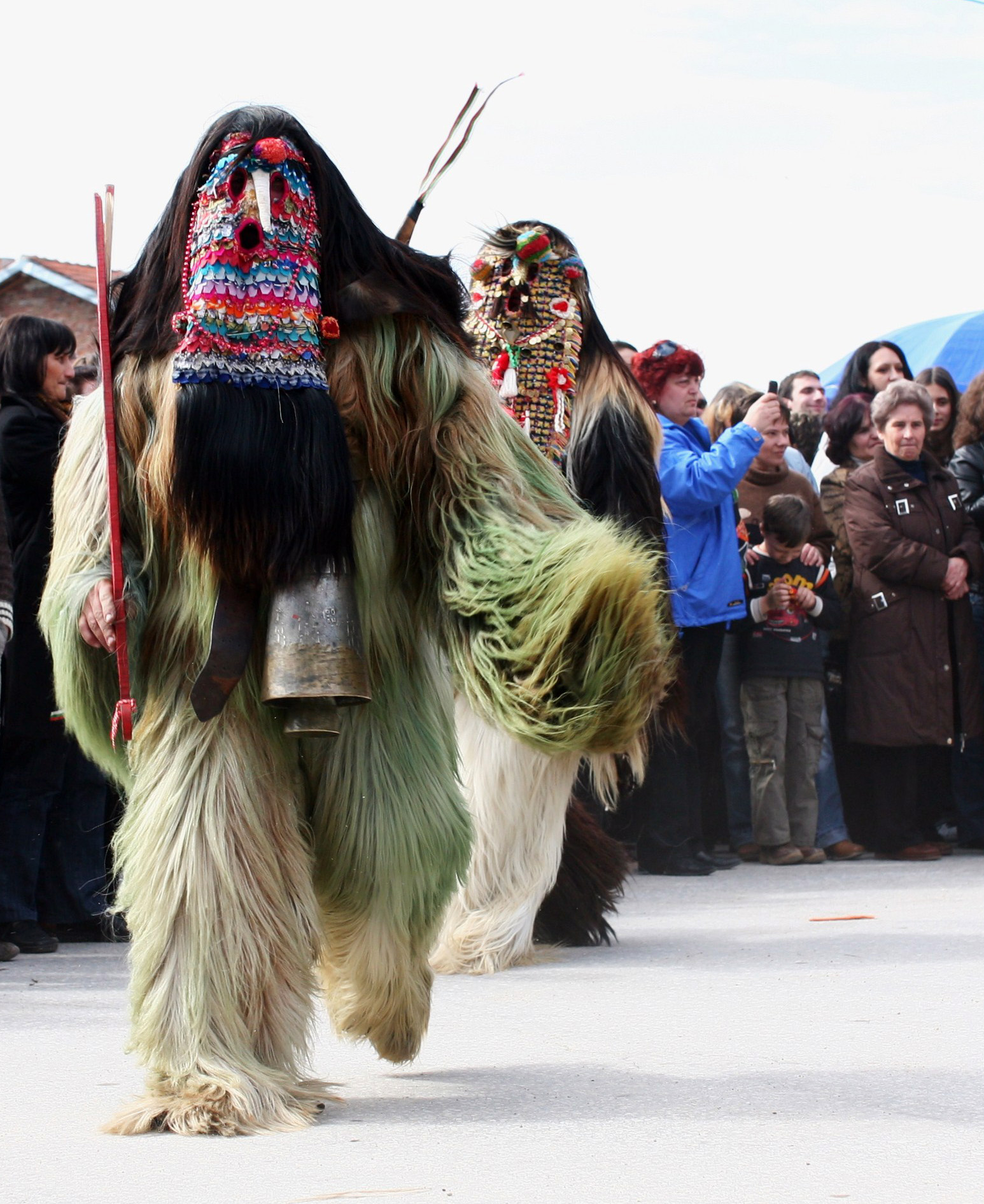 Kukeri, Bulgaria